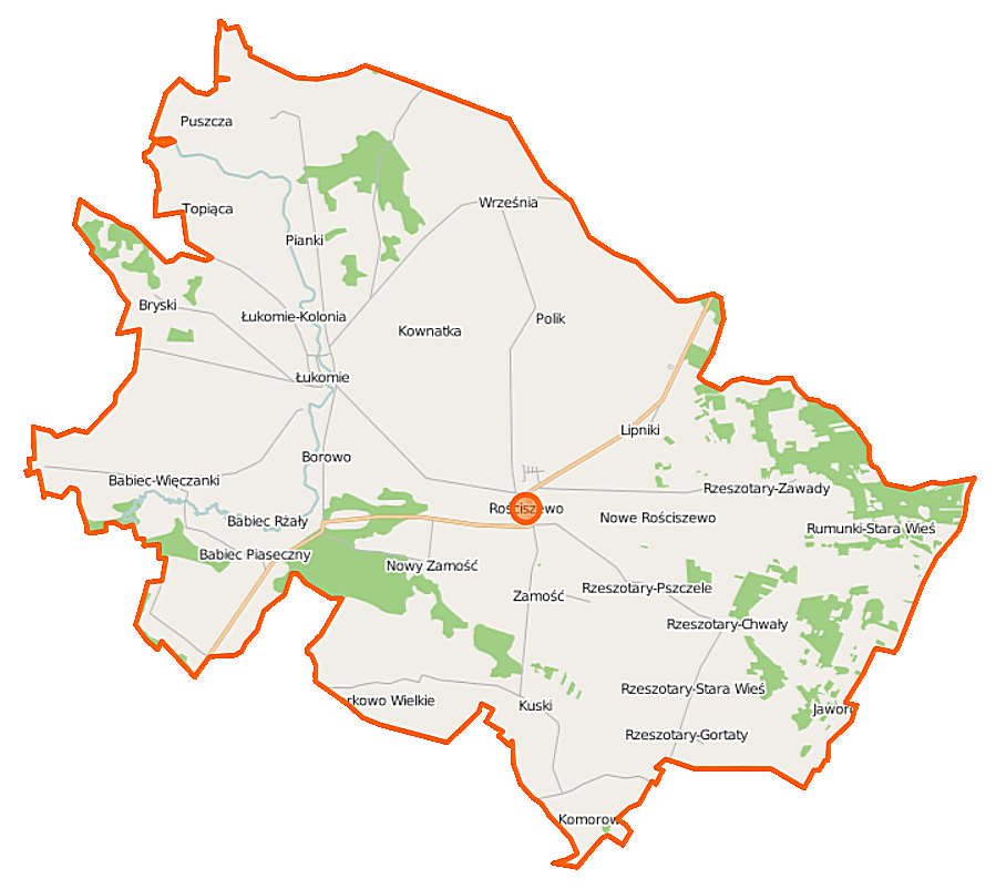 Map of Gmina Rościszewo, Poland This map of Rościszewo (gmina) was created from OpenStreetMap project data, collected by the community. This map may be incomplete, and may contain errors. Don't rely solely on it for navigation. Border coordinates52.977019.6436←↕→19.890452.8440